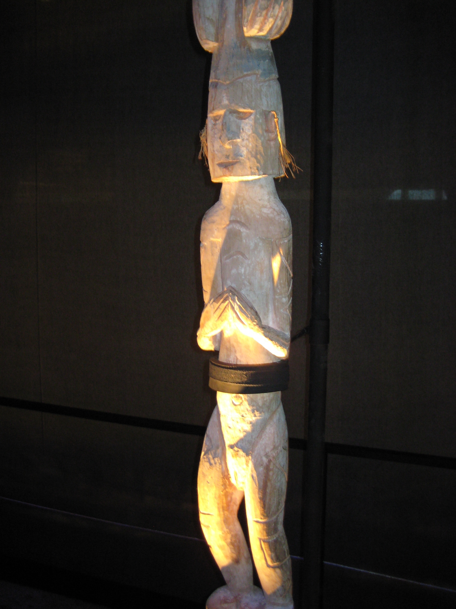 Bis pole, ritual carving